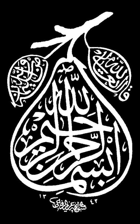 Calligraphy of the "Basmala" phrase phrase bismi-llāhi ar-raħmāni ar-raħīmi بسم الله الرحمن الرحيم in in the form of a pear. Right leaf: "Qāla allāh ta'ālā" ("The sublime God said"). Left: "Wa innahu min Sulaymān" ("And it is from Solomon" as the Basmala first apears in the Qur'an in a letter from Solomon).